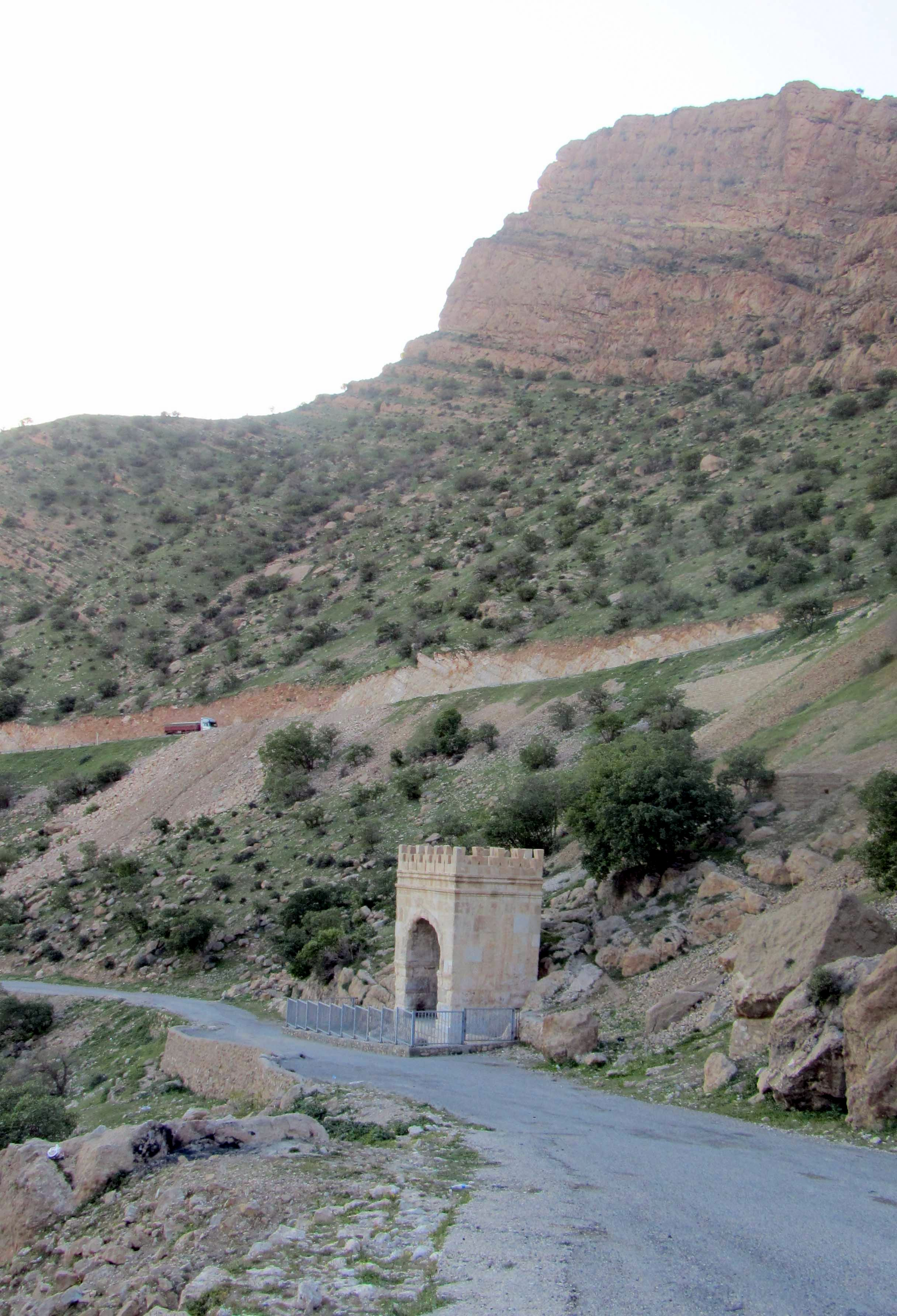 Tag-e Gara in Persia (April 2016). Photo by Hamidreza Sorouri / Persian Dutch Network